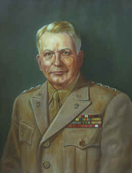 Edmund B. Gregory, attributed to US Army